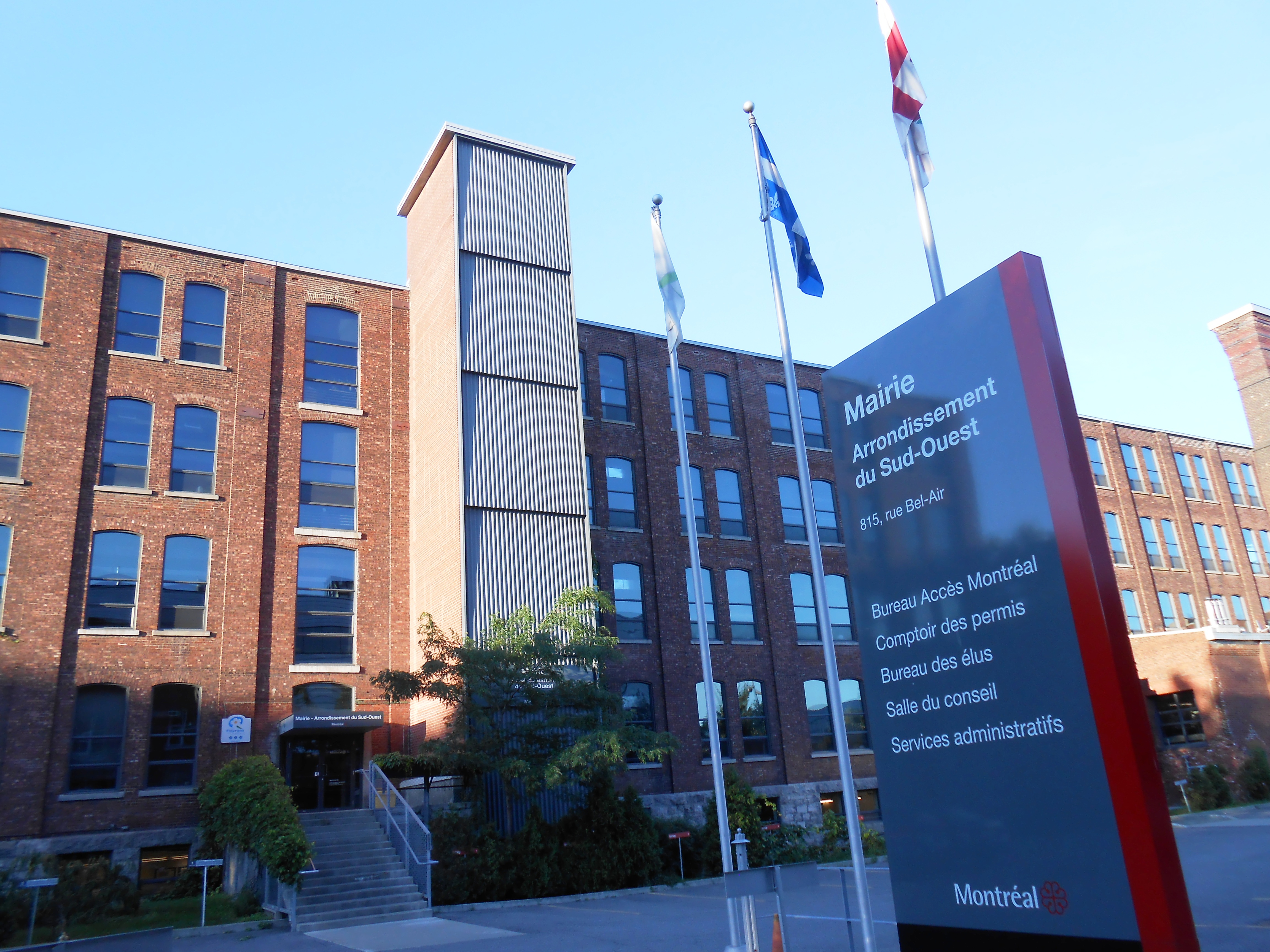 Borough hall, borough of Le Sud-Ouest, Montreal